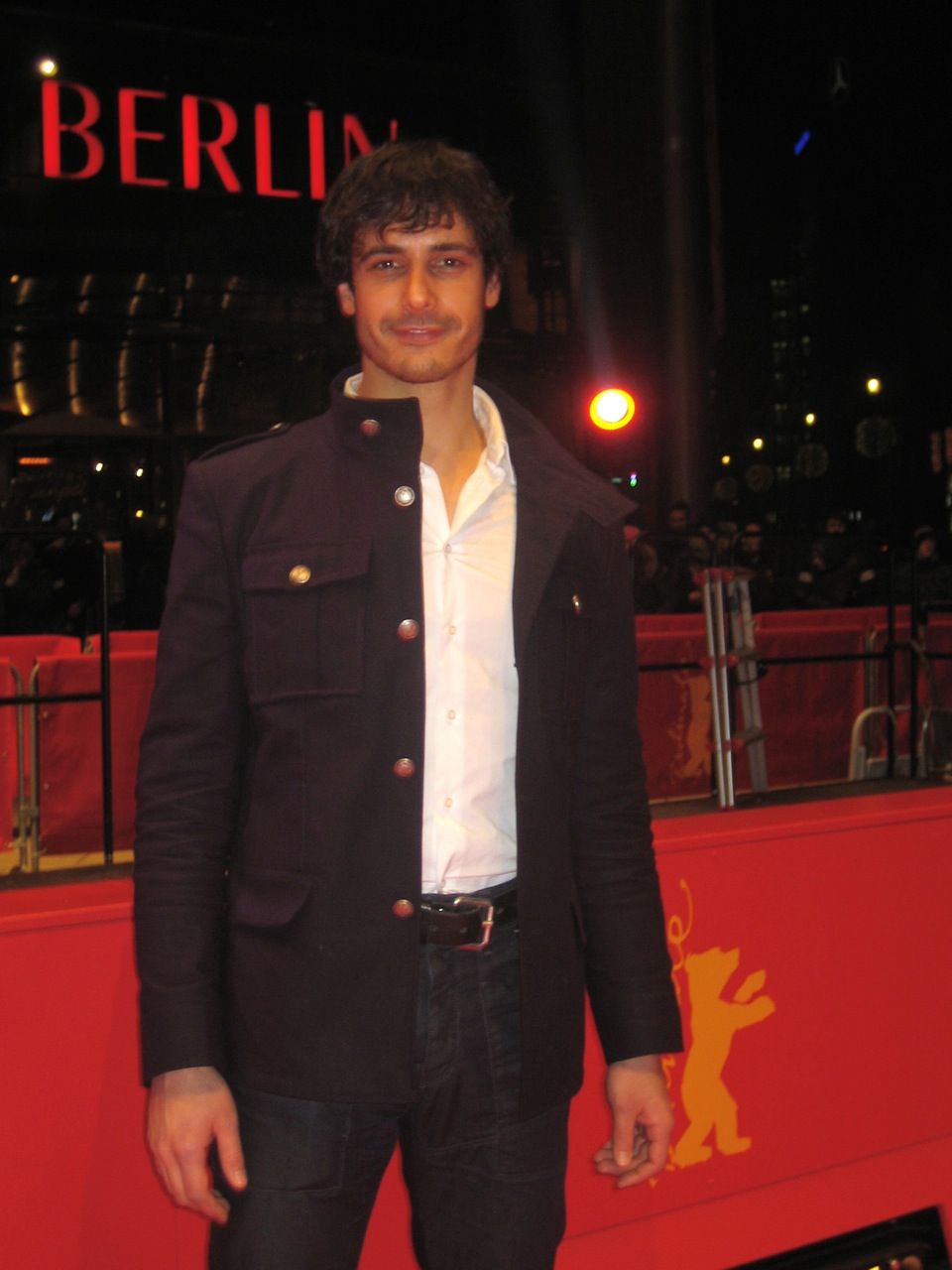 Valentin Schreyer at Berlinale 2011